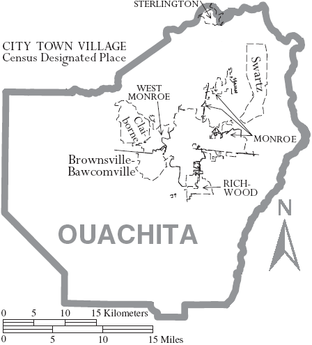 Map of Ouachita Parish, Louisiana, United States with district and municipal boundaries